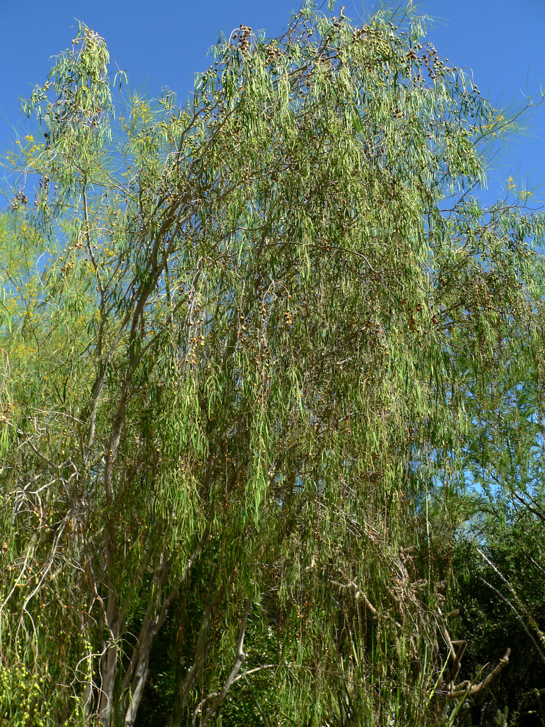 Pittosporum phillyreoides at the Ethel M Botanical Cactus Garden, Las Vegas, Nevada